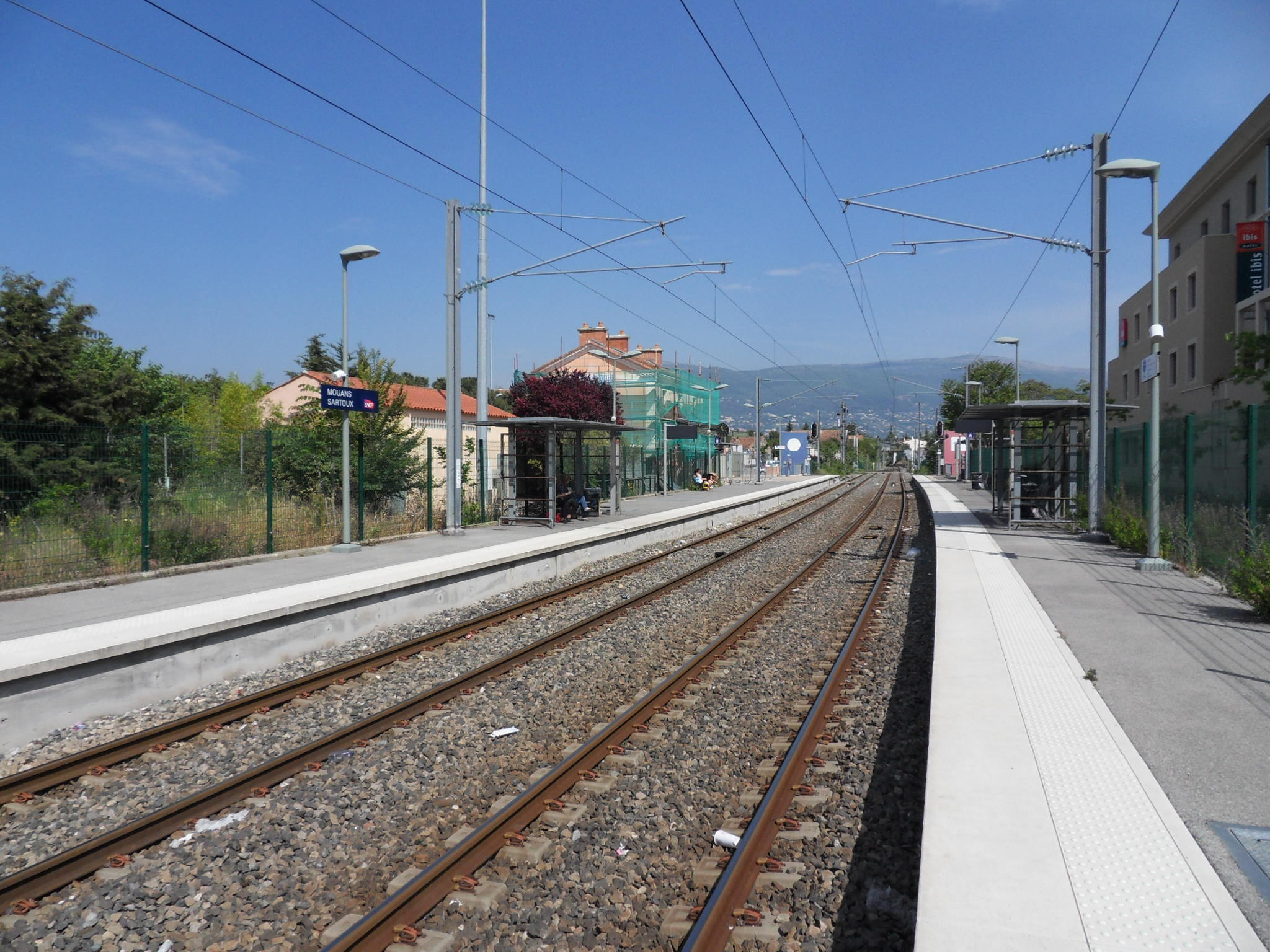 Mouans-Sartoux, France. Station